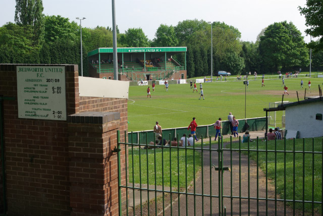 The Oval, Bedworth Home of Bedworth United FC. The ground has been home to the various incarnations of football clubs in Bedworth since the early 20th century and was originally known as The Knob. Floodlights were first erected here in 1970. Adult admission for first team matches for the 2007/08 season is listed on the notice as £6.